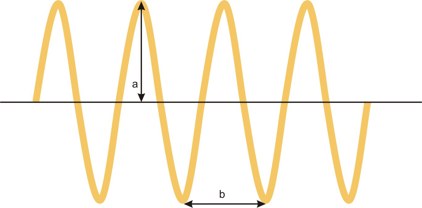 Amplitude (a) and wavelength (b).